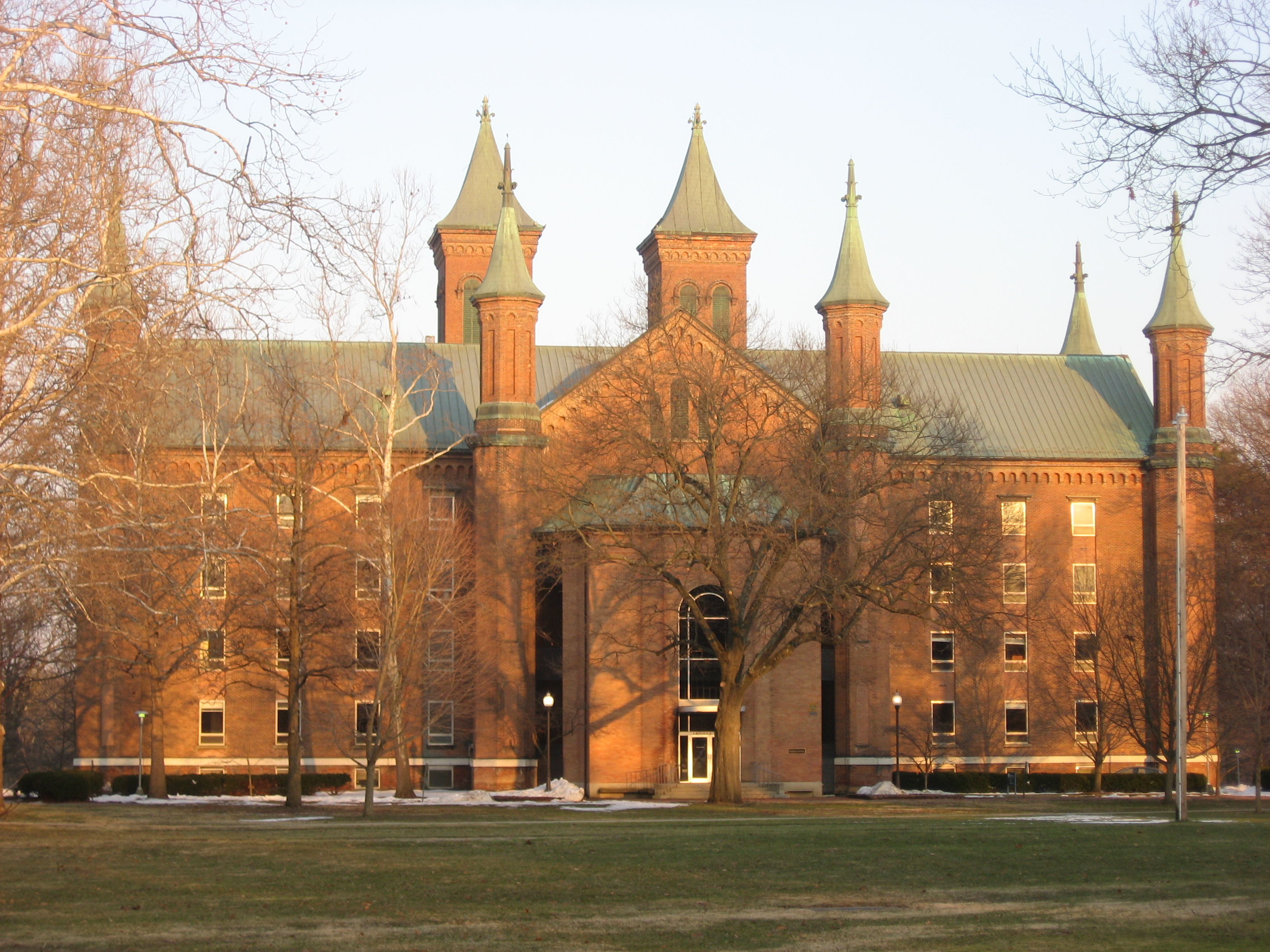 Rear of Antioch Hall, located on the campus of Antioch College in Yellow Springs, Ohio, United States.